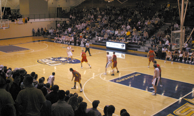 A basketball game in progress at Buena Vista University.